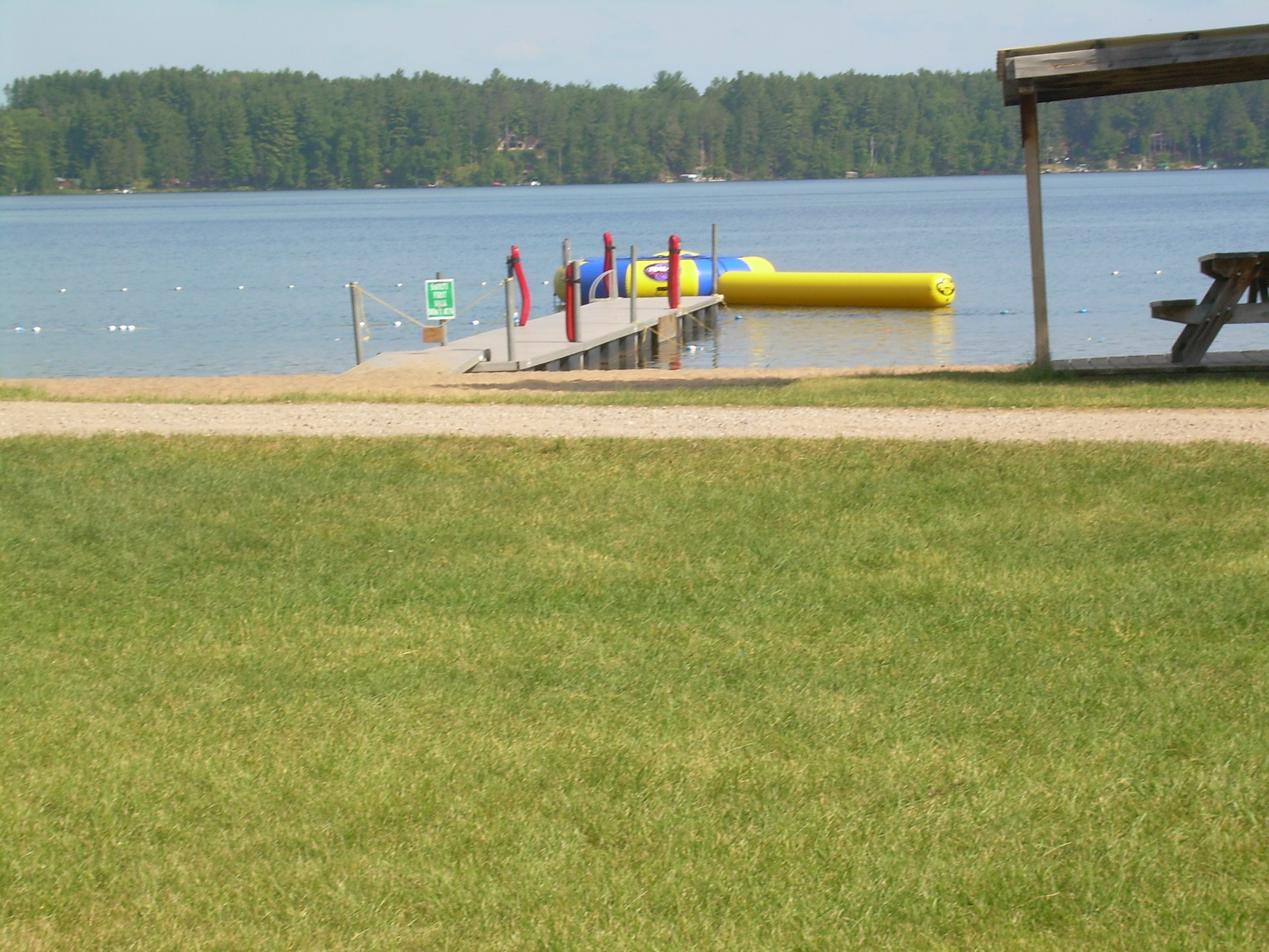 This is the lower kikar/waterfront of Camp Ramah in Wisconsin.